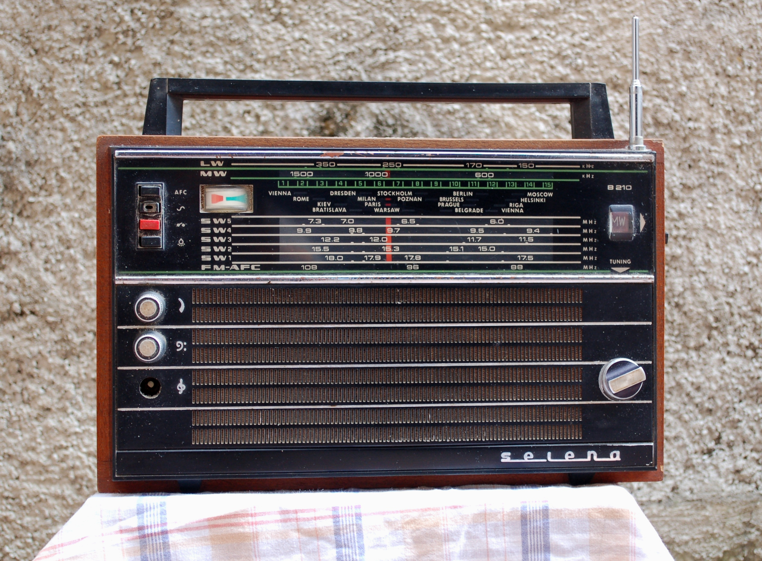 Front of old Selena Radio recivers, Model B210